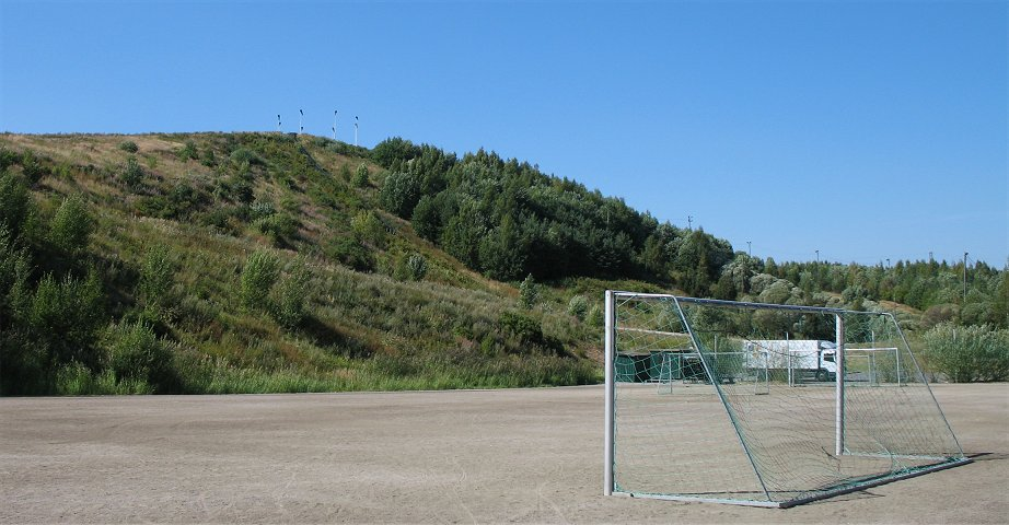 Malminkartanonhuippu hill in Malminkartano, NW Helsinki, Finland. This is the highest hill in Helsinki with top some 90 metres above mean sea level.